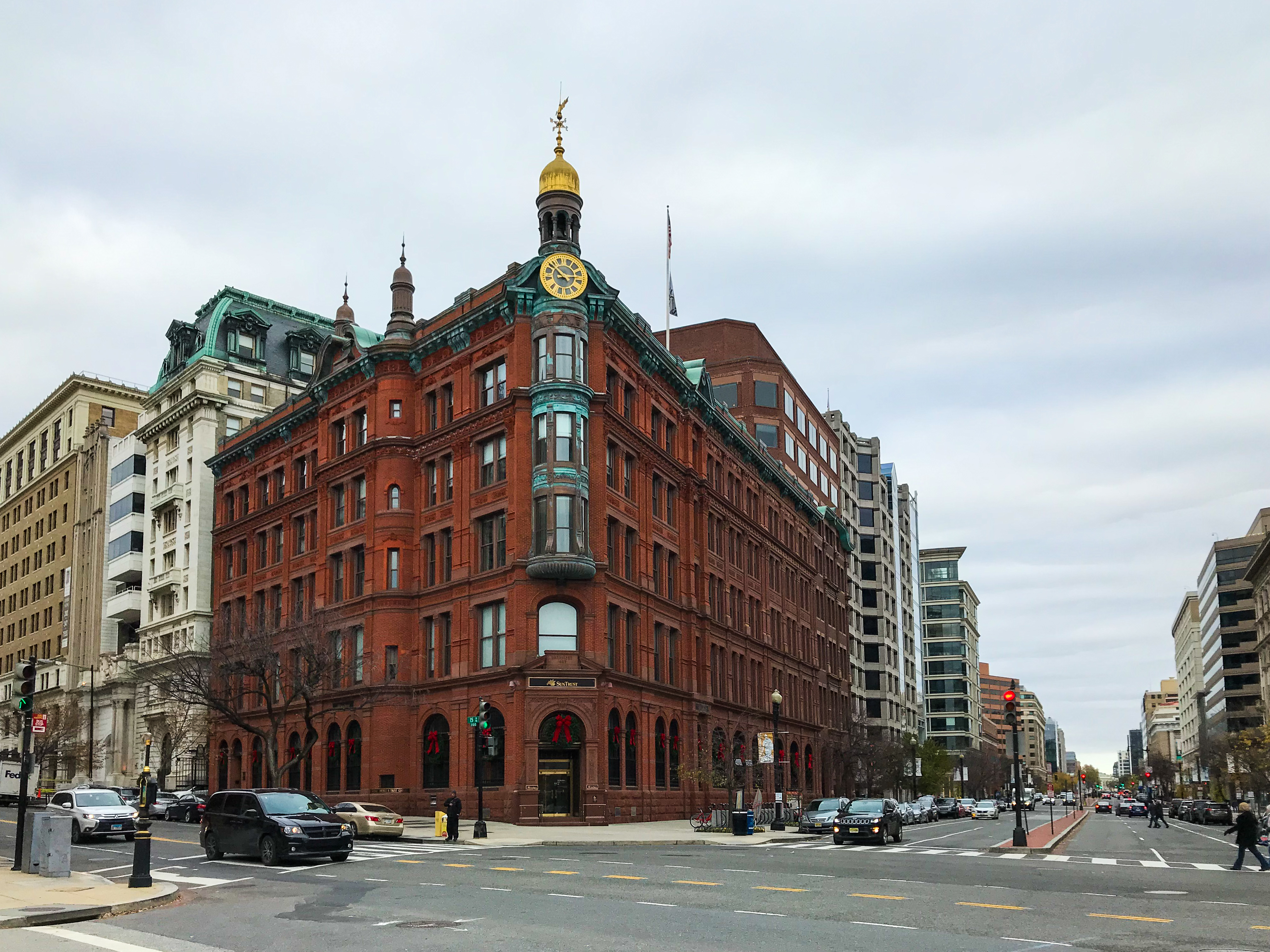 National Savings and Trust Company Building, historic office at New York Ave and 15th Street, Washington, DC